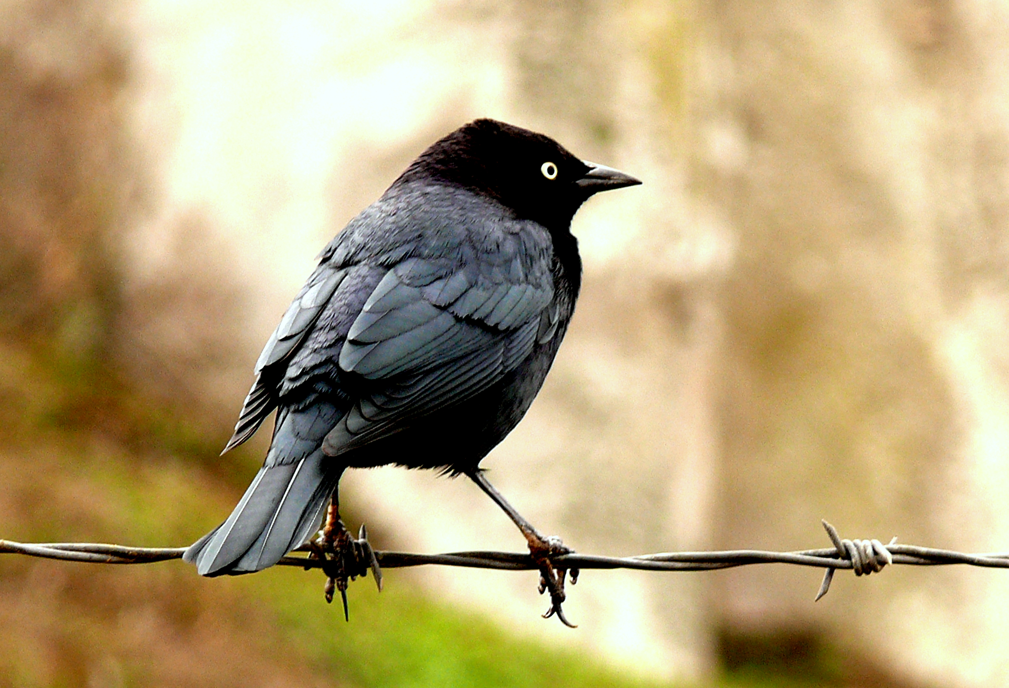 Brewer's Blackbird